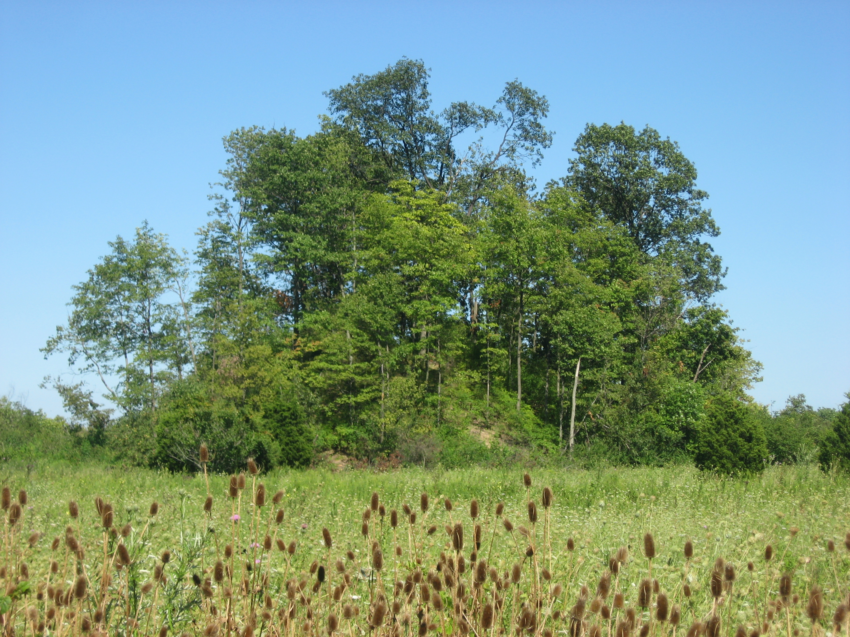 Western side of the Great Mound of Butler County, located on the eastern side of Wayne-Madison Road west of Middletown in Madison Township, Butler County, Ohio, United States. Built by the Adena culture, it is an archaeological site and listed on the National Register of Historic Places.